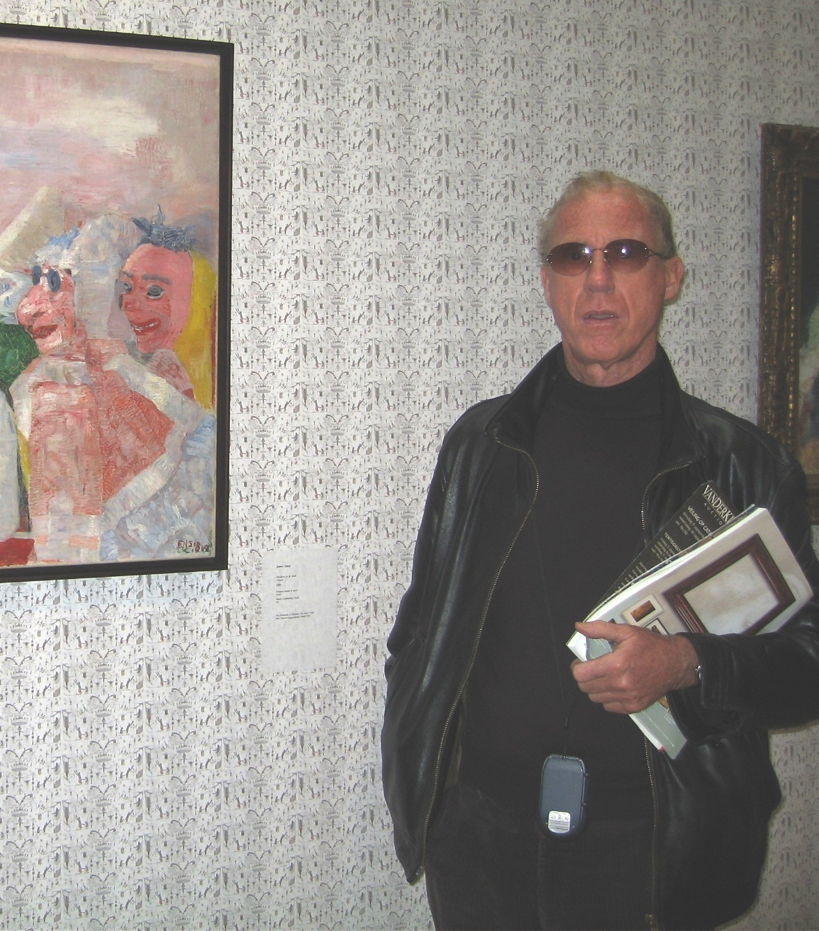 Erik Pevernagie in Antwerp Museum